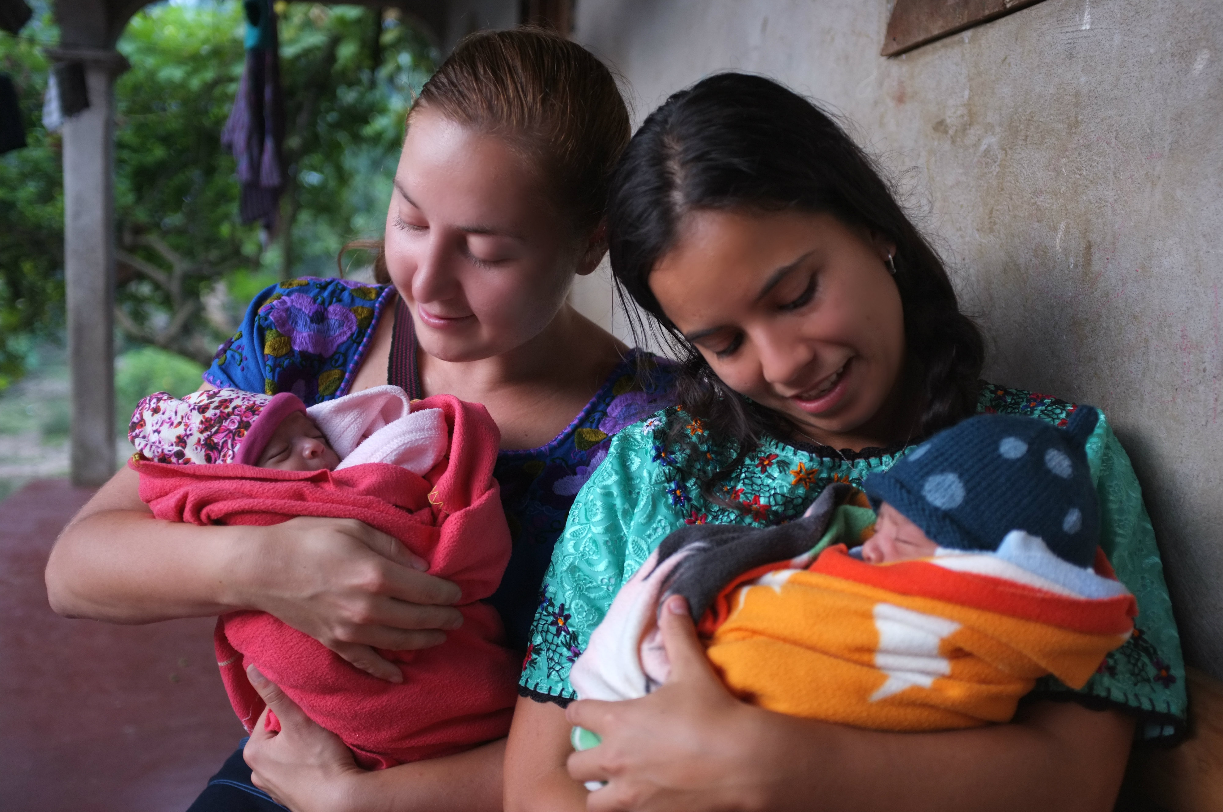 Health&Help